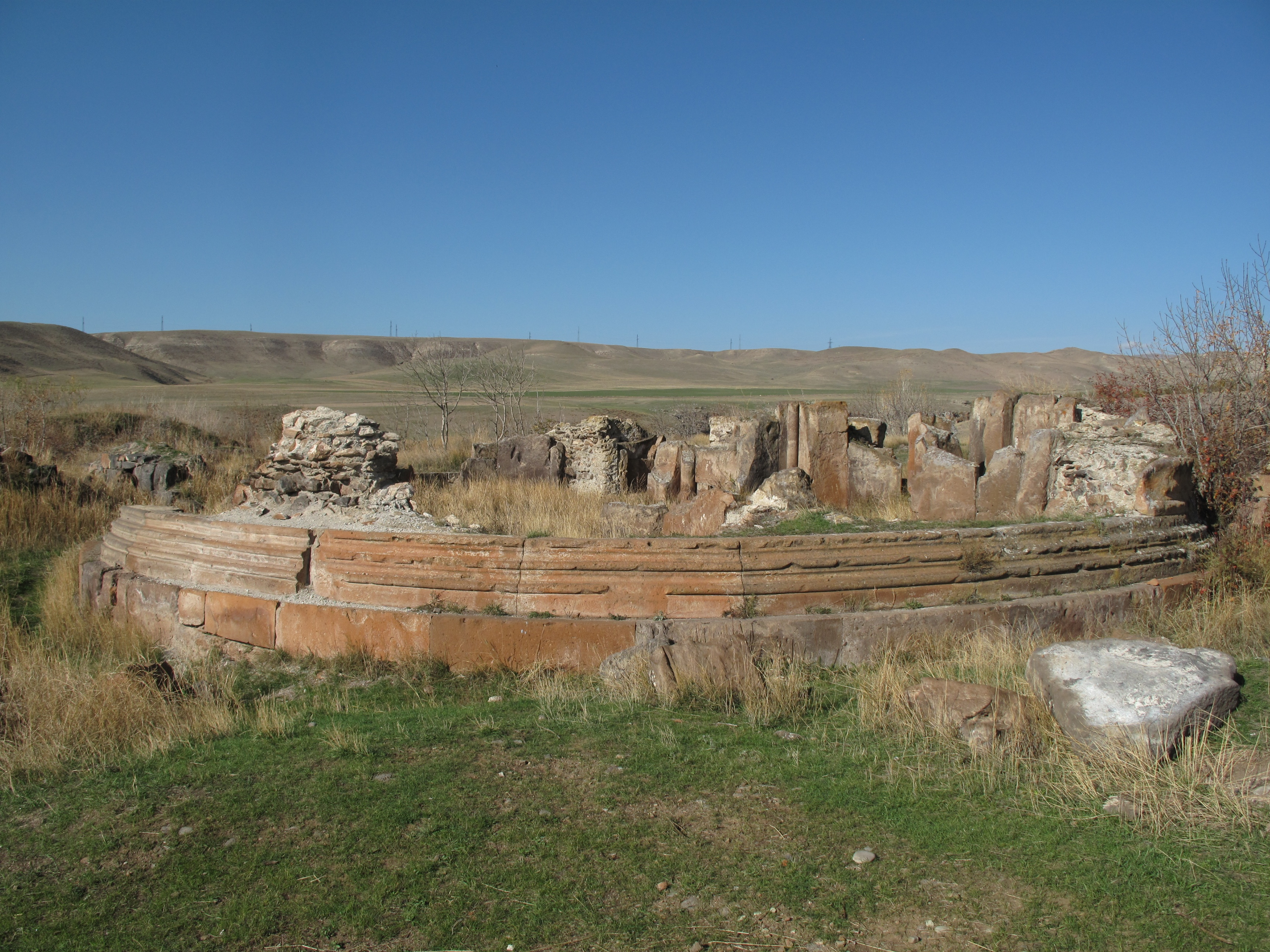 Ruins of the (western) circular church, Marmashen, Shirak, Armenia.